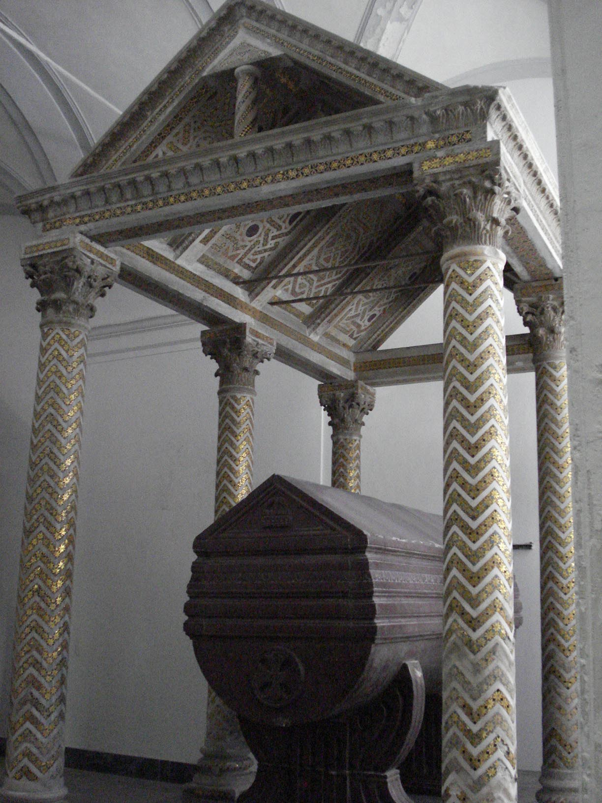 Constance's sarcophagus in Palermo Cathedral